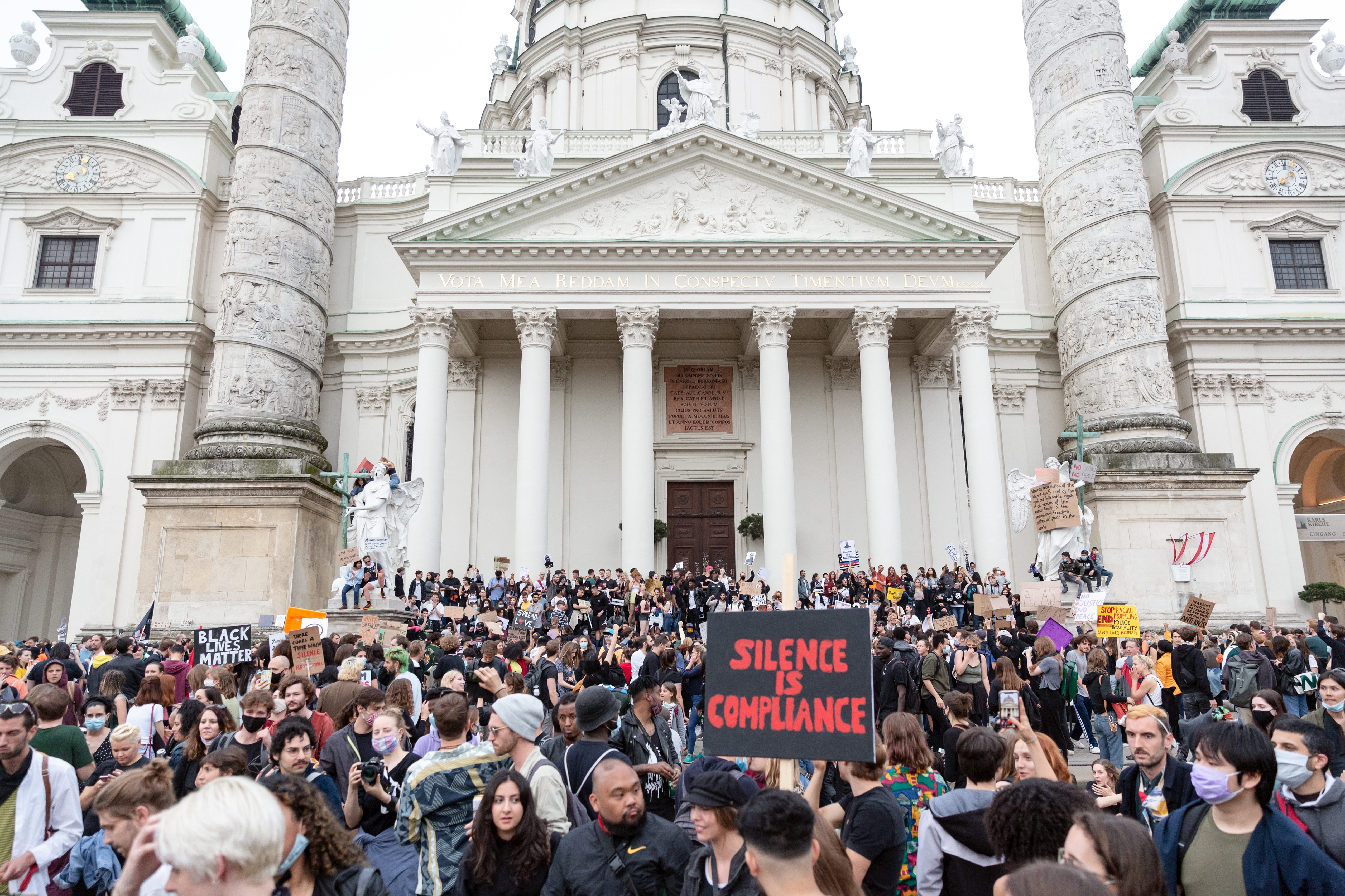 Protest Black Lives Matter Vienna (see also George Floyd protests) in Vienna,Austria.